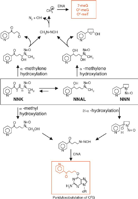 Method of action for N-Nitrosonornicotine and other nitroso compounds.